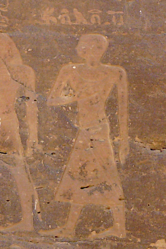 The ancient Egyptian treasurer Khety, closeup of a petroglyph of pharaoh Mentuhotep II (11th Dynasty) at Shatt er-Rigal.